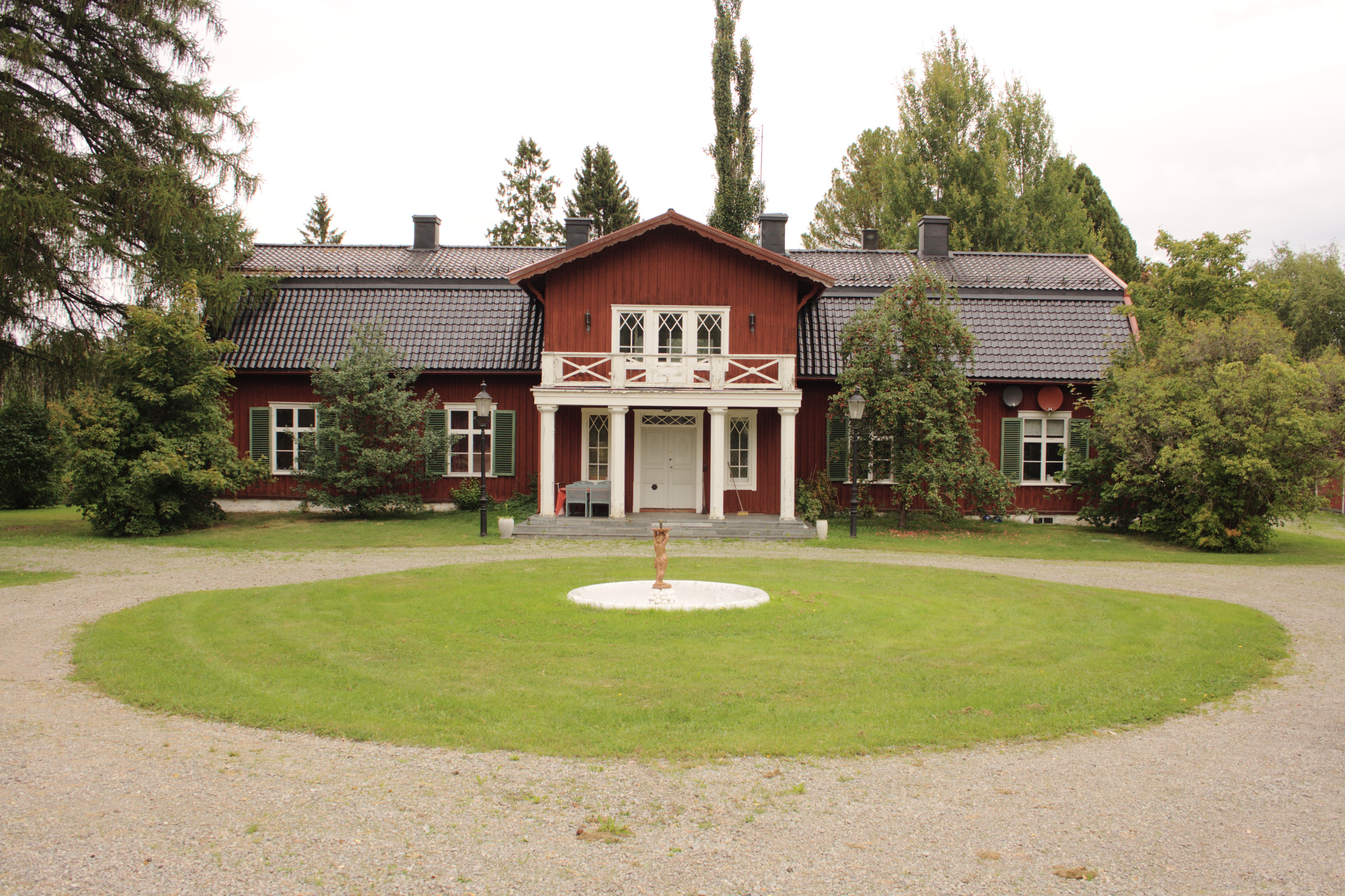 Böle, lieutenant colonel's residence built in 1761 in Umeå